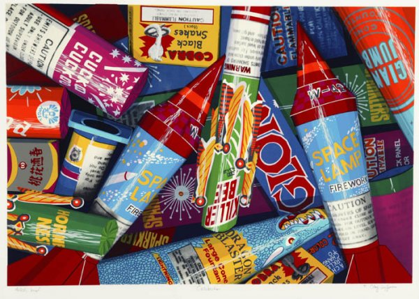 Celebration - Clay Huffman